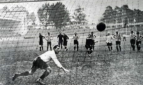 Belgian player Robert Coppée opens the score in the 6th minute of the 1920 Olympic football final, with a penalty kick past Czechoslovak goalkeeper Rudolf Klapka.